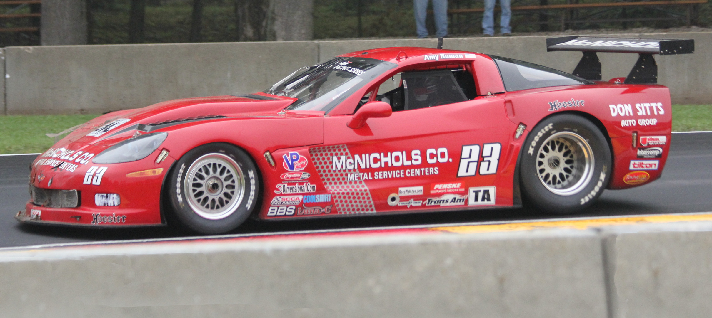 The SCCA Trans Am series car of Amy Ruman at the Next Dimension 100 race at Road America.